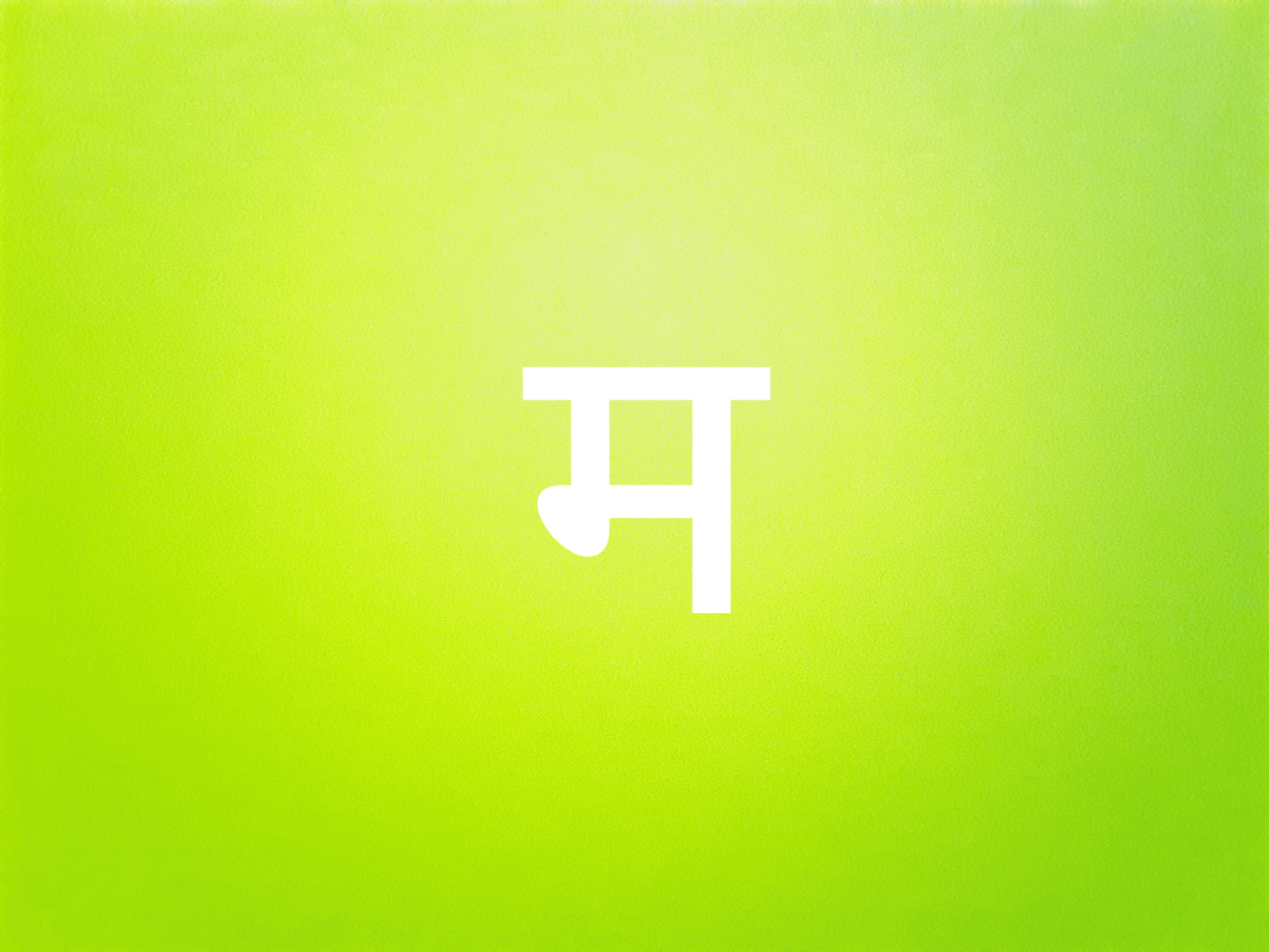 Madhyama (Ma)